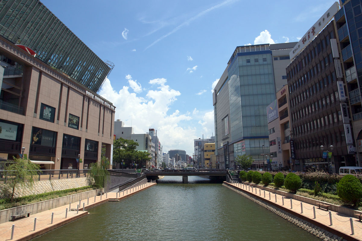 Hakata river in Hakata-ku, Fukuoka city, Japan.